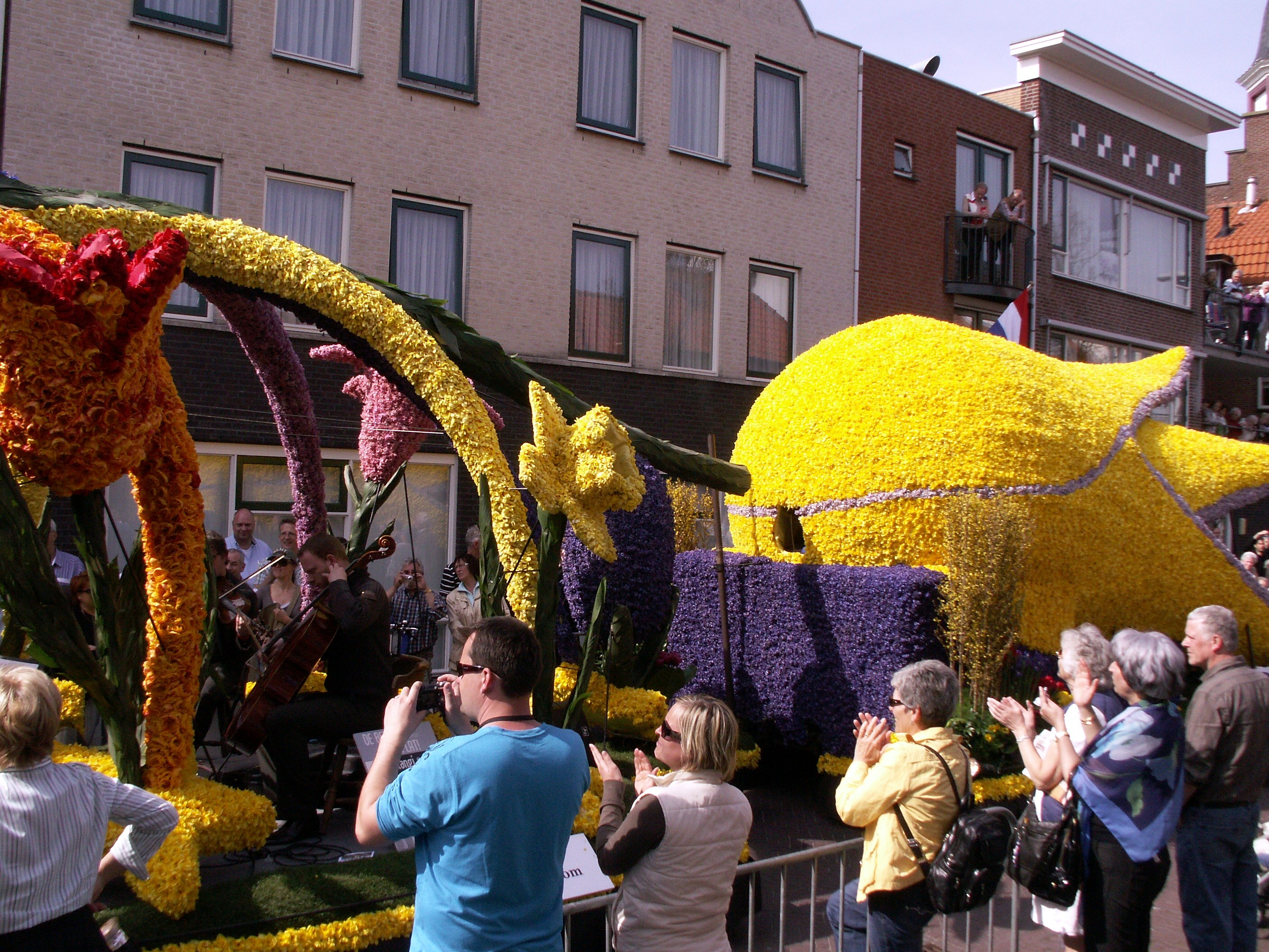 Bloemencorso in Lisse, Holland